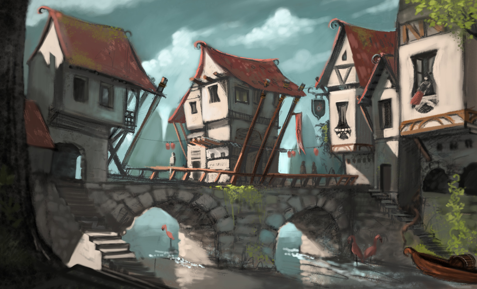 Concept-art done for Sintel , 3rd open-movie of the Blender Foundation. Artwork : David Revoy